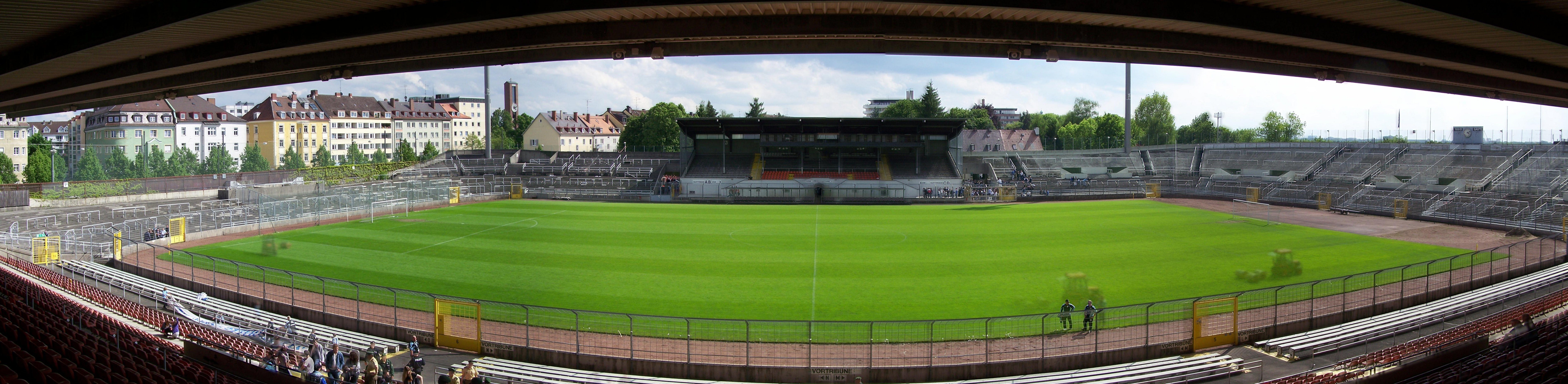 panoramic view of the "Stadion an der Grünwalder Straße" in Munich